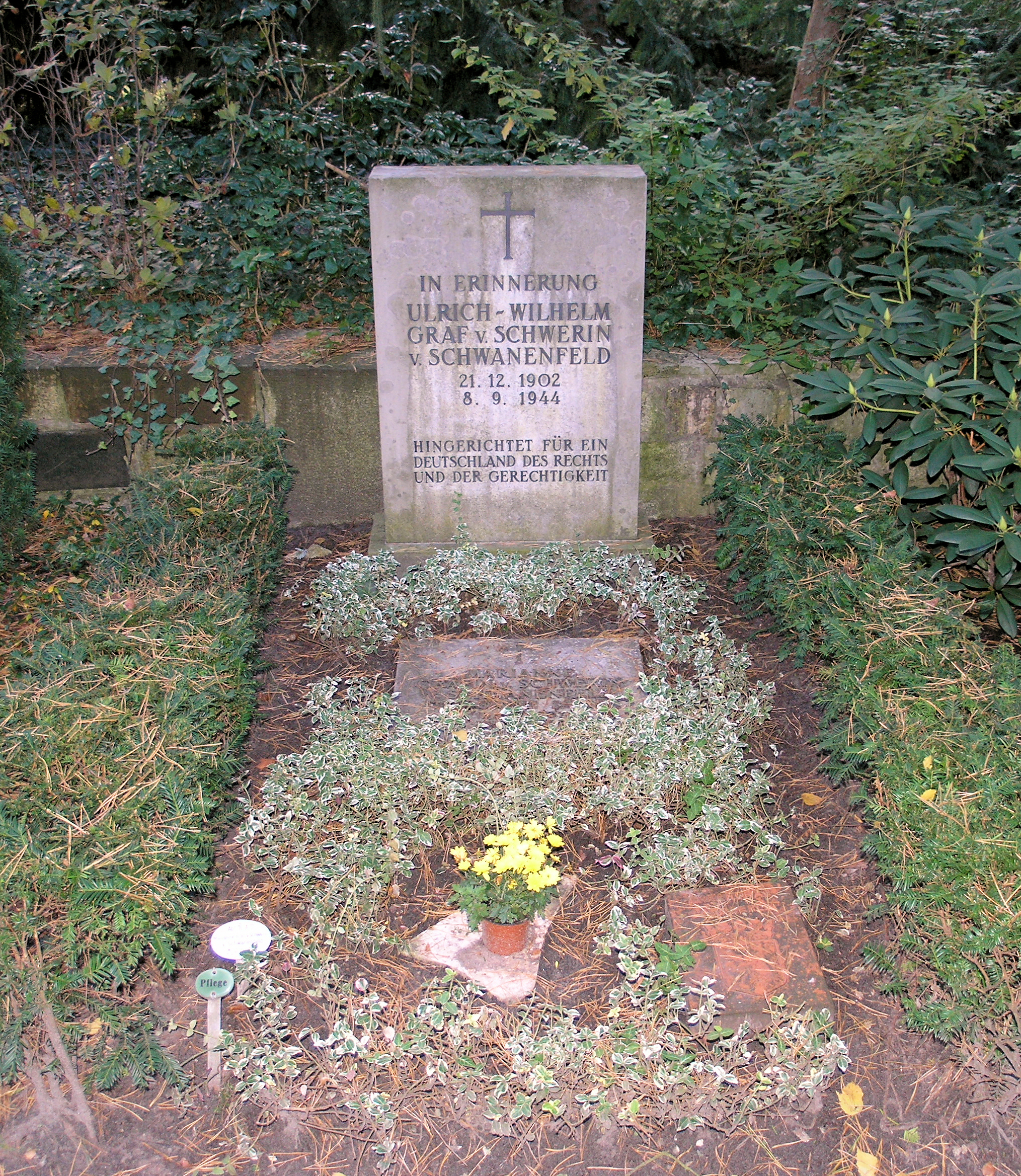 "Ehrengrab" (grave of honor), Ulrich Wilhelm Graf Schwerin von Schwanenfeld, Hüttenweg 47, Berlin-Dahlem, Germany Koordinate:52°27′20″N 13°15′49″E / 52.45556°N 13.26361°E